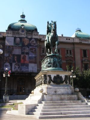 Prince Mihailo (Michael) monument in Belgrade (Serbia)